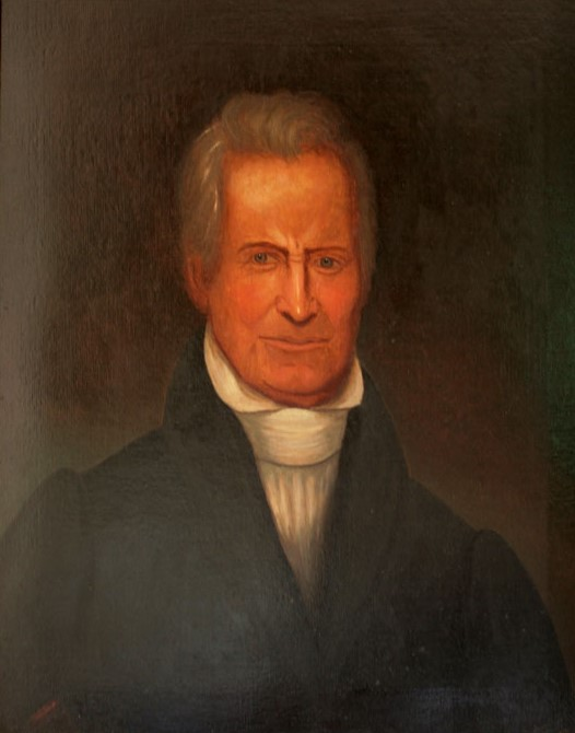 This is a digital image of the painting. The painting was attributed to a painter Wiseman and was painted in the early-1800s. Details of the painting are found on the National Society of Colonial Dames of America in Tennessee website, url= The portrait has been passed down through generations. It is also depicted in The North Carolina Portrait Index (1700-1860), which was compiled by the National Society of the Colonial Dames of America in North Carolina.